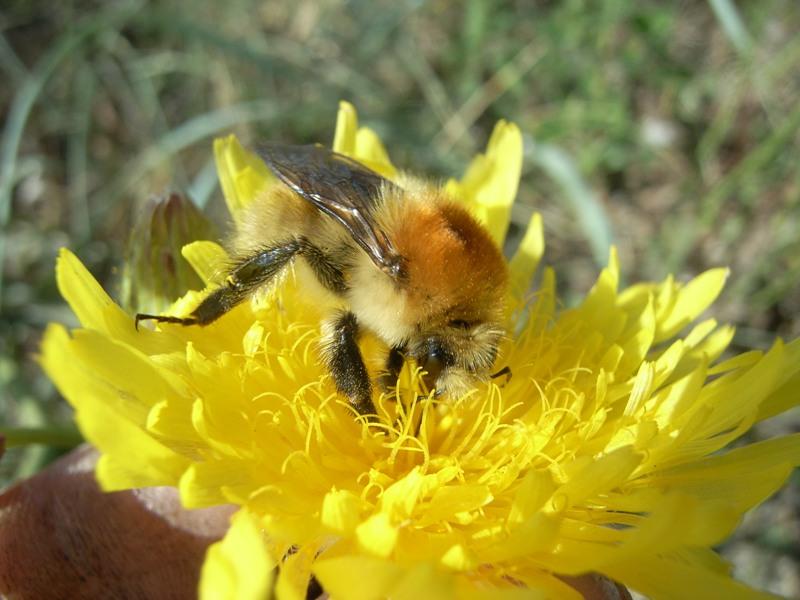 Bombus muscorum. Location: Griend (the Netherlands)